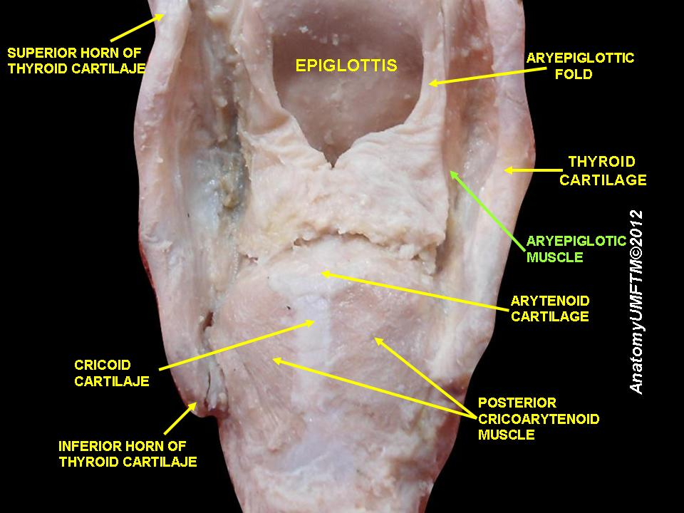 Anatomical dissections